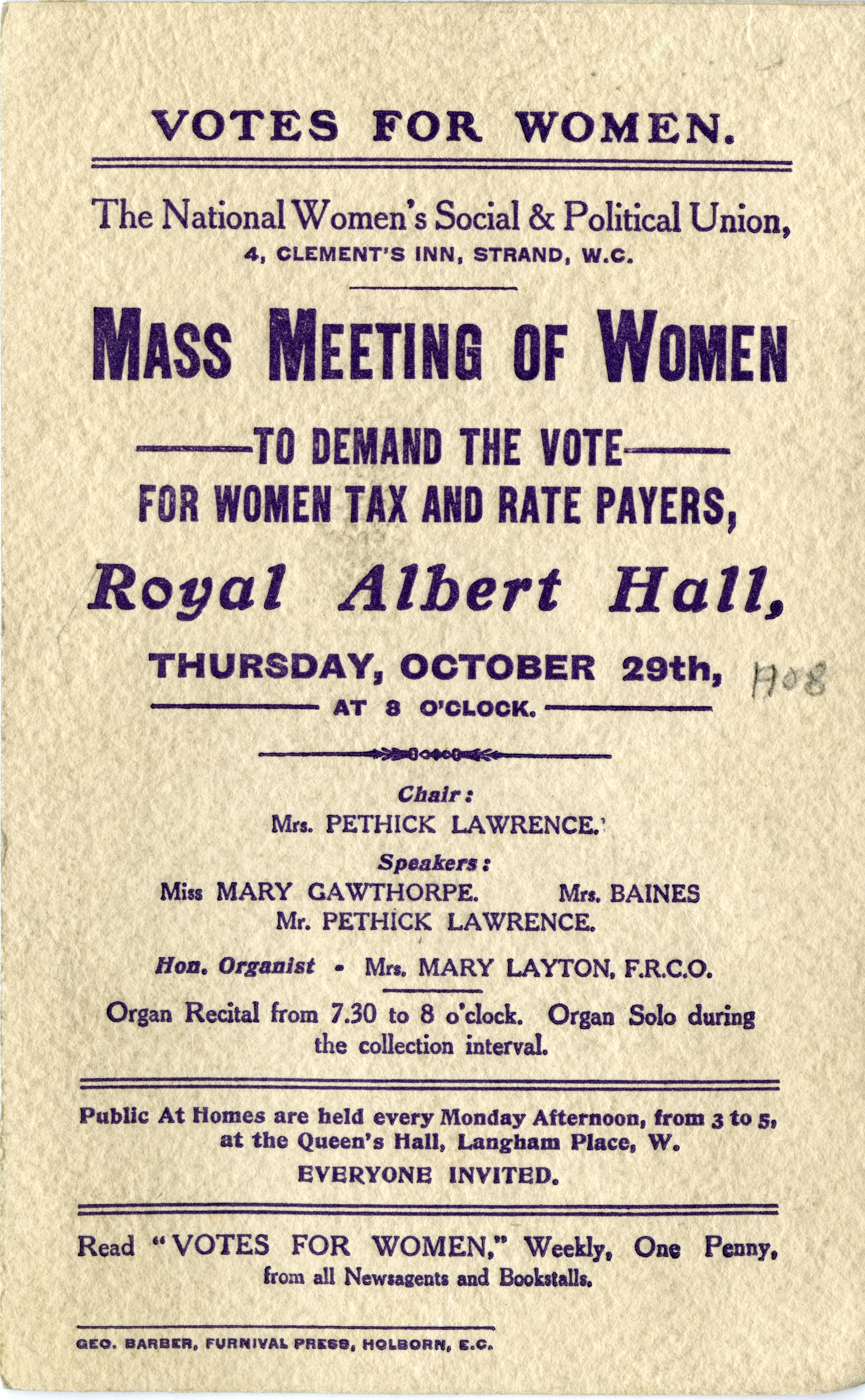 This collection started out as ephemera from the 40 boxes of UDC pamphlets on suffrage topics have been grouped together in this scrapbook, which comprises 1 album and 1 oversize box. This material includes: membership cards for suffrage organisations; flyers for suffrage meetings, demonstrations and other events; committee lists for suffrage organisations, including religious suffrage groups; appeals for funds; material related to local and general elections; ephemera from men's suffrage organisations and anti-suffrage material. Additional suffrage material has been added to 10/54 as it has been received at The Women's Library. 10/54